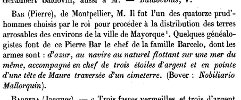 The family name Barcelo (Barceló of the Balears) would come from Frenchman Pierre Bar (aka Pedro Barceló) from Montpellier (today southern France). Text from Les français aux expéditions de Mayorque et de Valence sous Jacques le Conquérant by baron Charles de Tourtoulon.